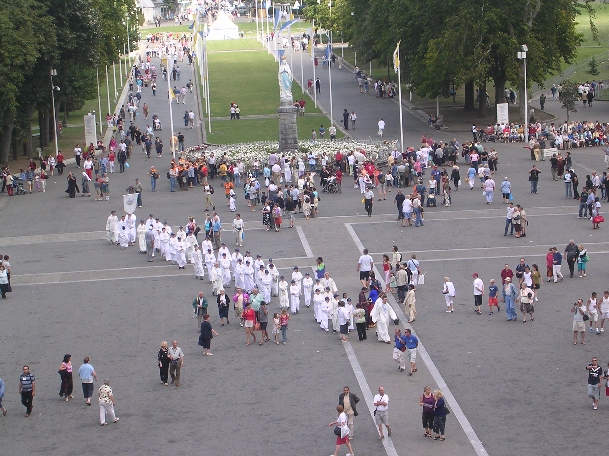 People on the Rosary Square in Lourdes, France